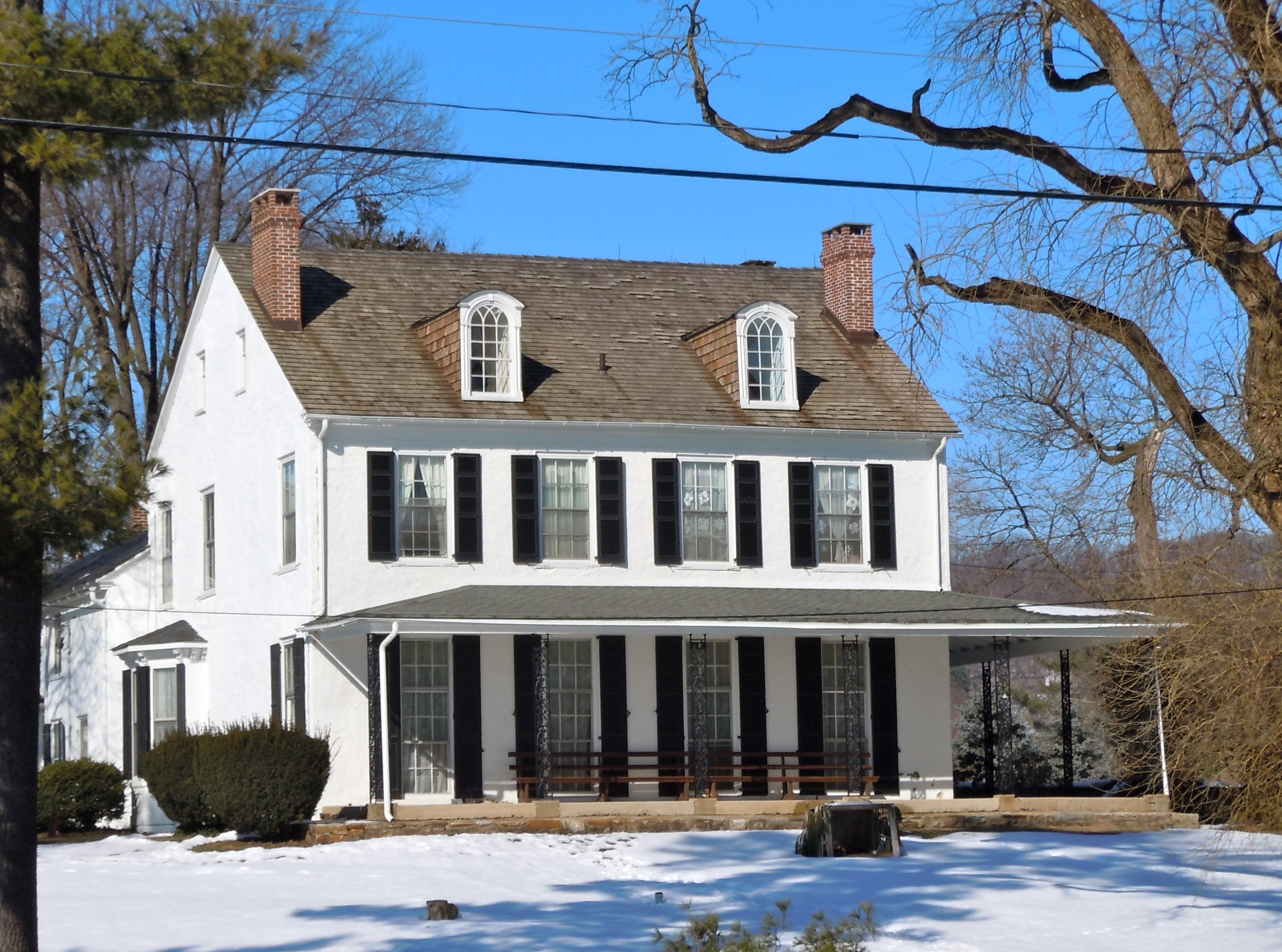 Colebrook Manor on the NRHP since September 6, 1984. At 637 West Lincoln Highway (US 30) near Exton, West Whiteland Township, Chester County, Pennsylvania. Nice barn with cows nearby, but being overwhelmed by suburbia now.